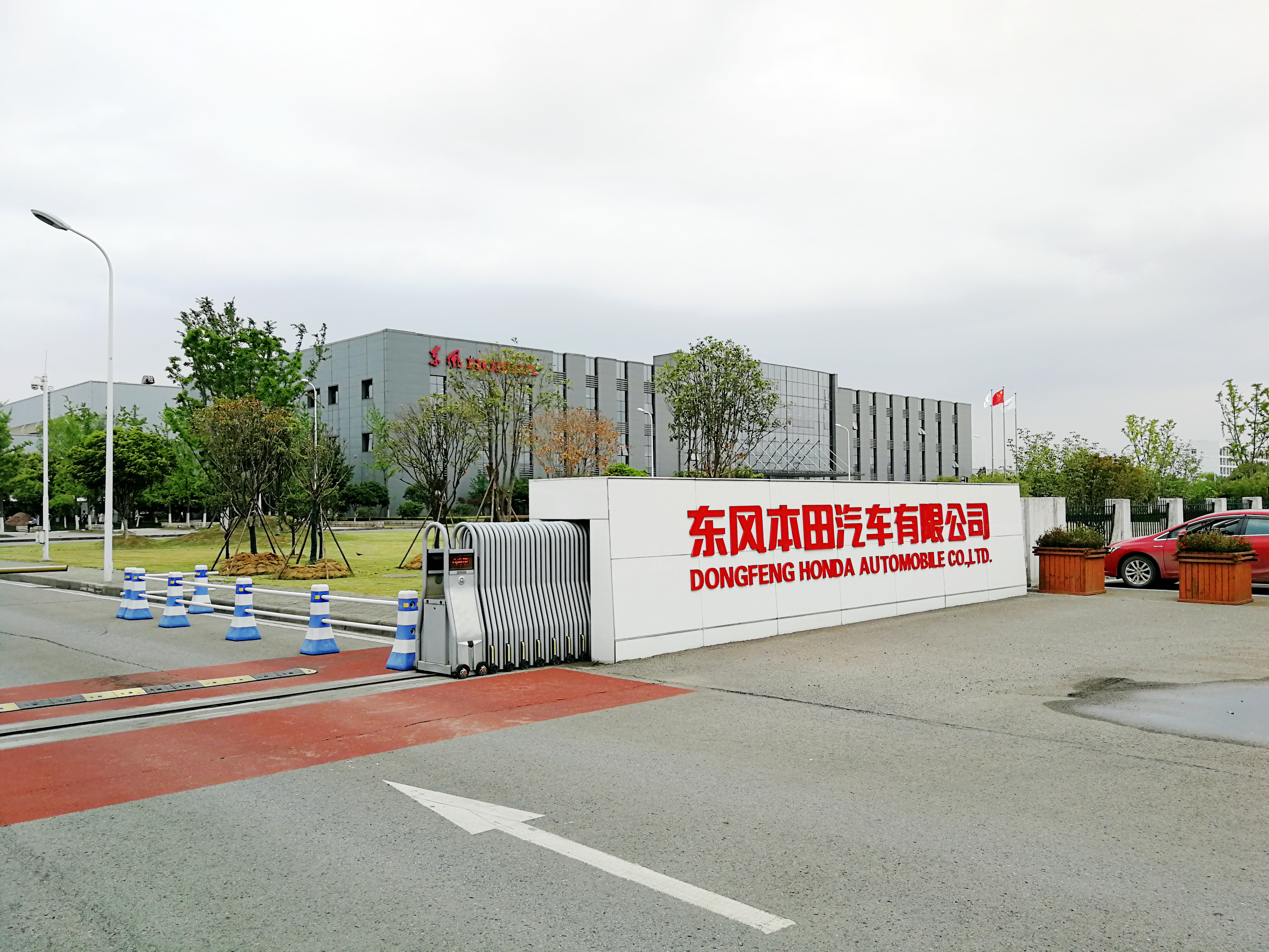 the main gate of Dongfeng Honda No.2 Factory.